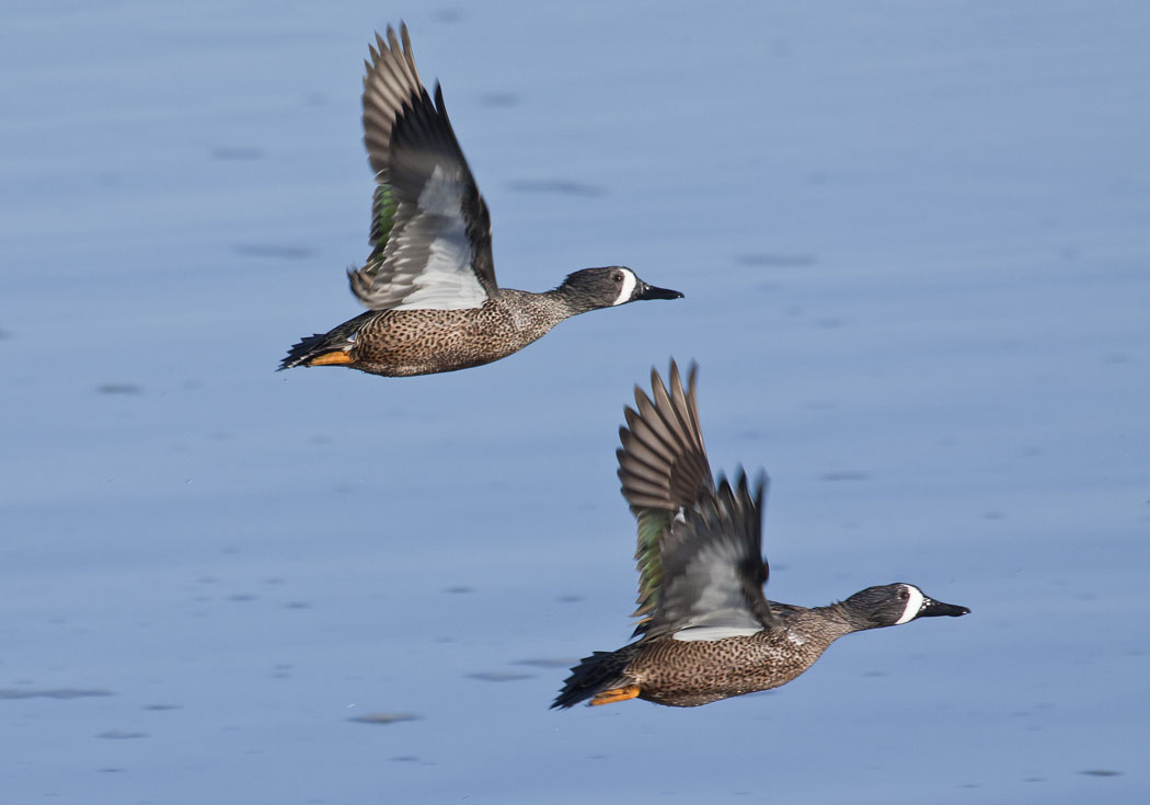 Two male Blue-winged Teals flying in Los Osos, California, USA.